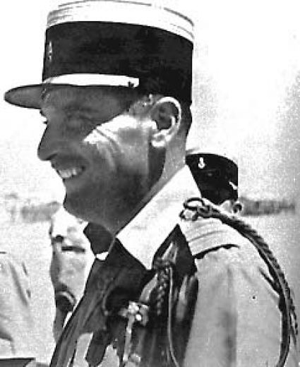 Dimitri Amilakvari (1906-1942), lieutenant-colonel of the French Free forces, Compagnon de la Libération